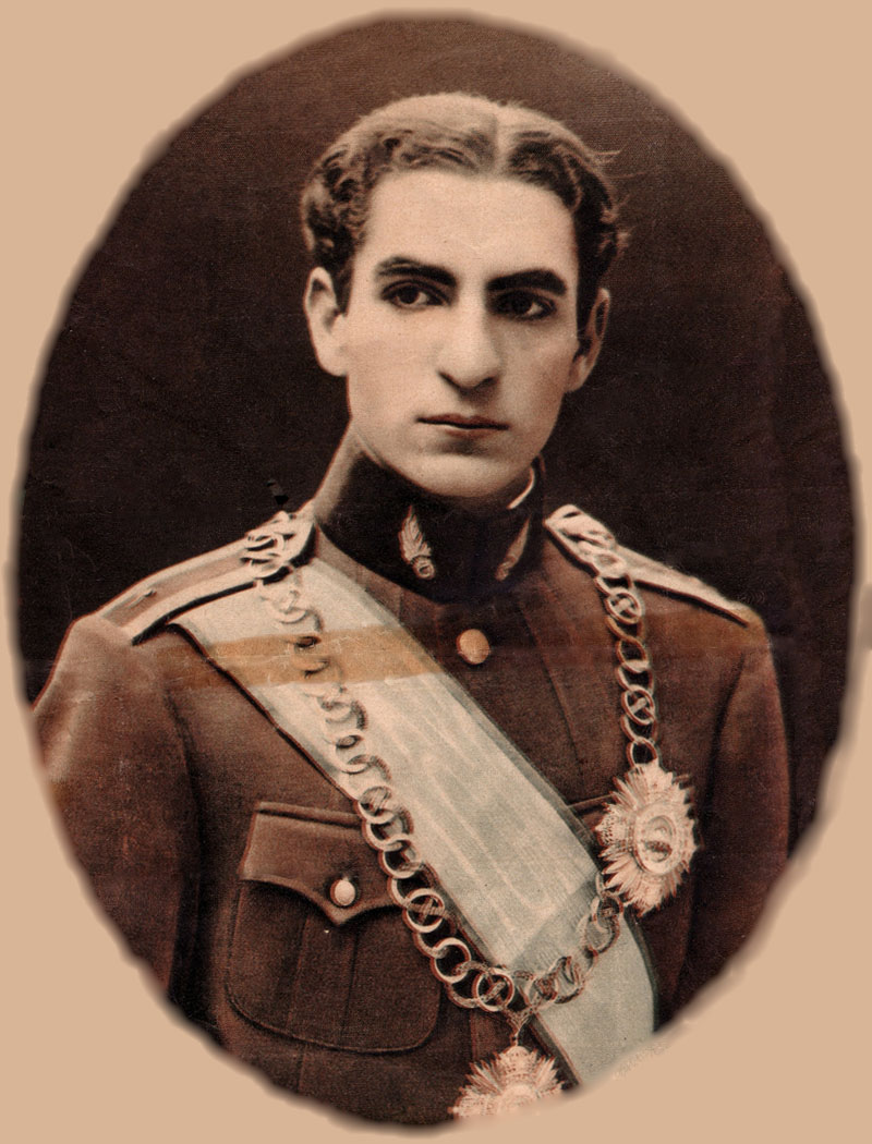 Mohammad Reza Pahlavi, official engagement photograph